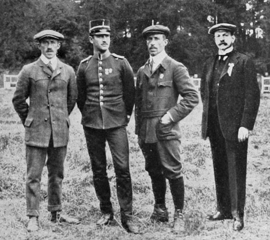 Vilhelm Carlberg, Johan Hübner von Holst, Eric Carlberg, Gustaf Boivie at the 1912 Olympics